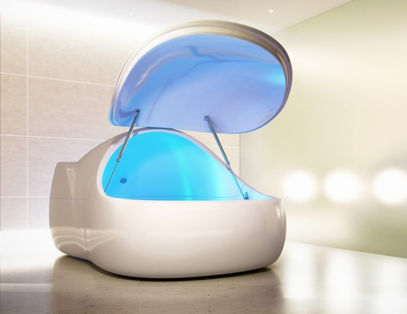 i-sopod floatation tank in a spa setting. As created by Floatworks